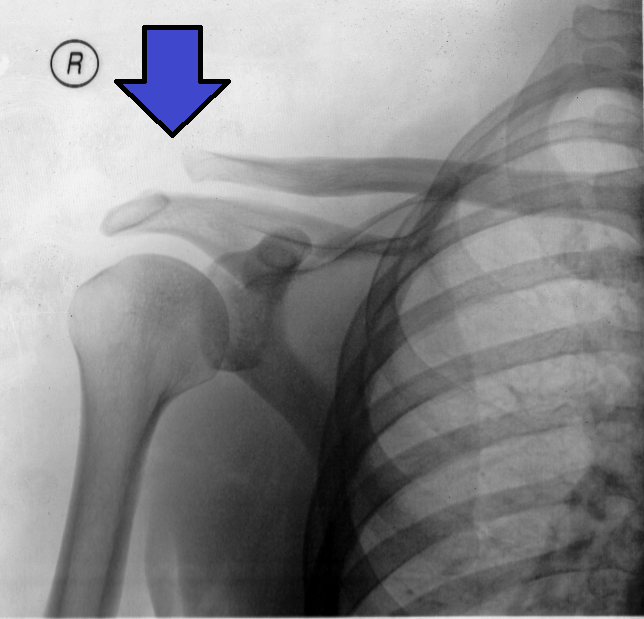 This is an enhanced X-Ray of a separated shoulder.